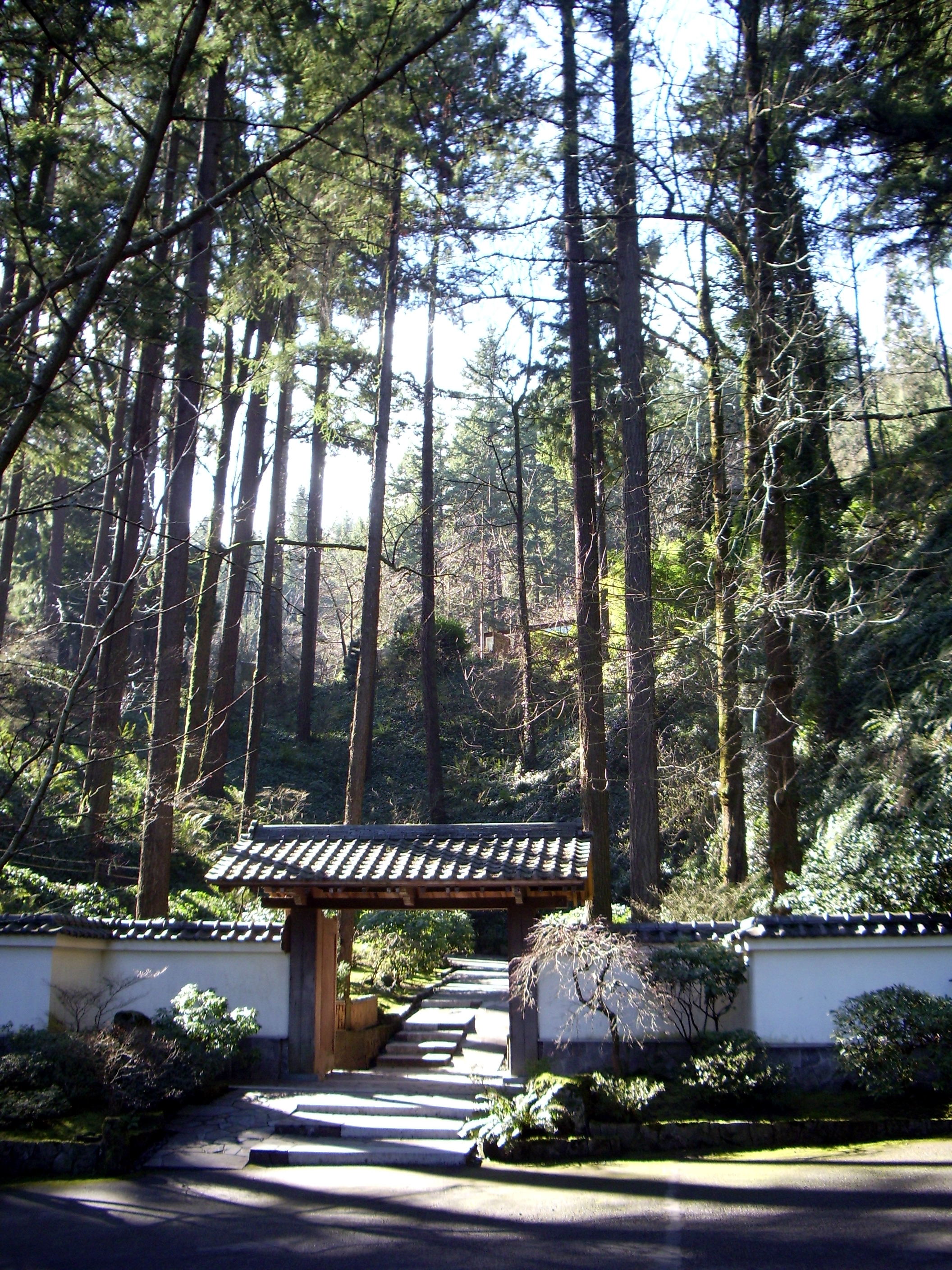 Portland Japanese Garden lower entrance